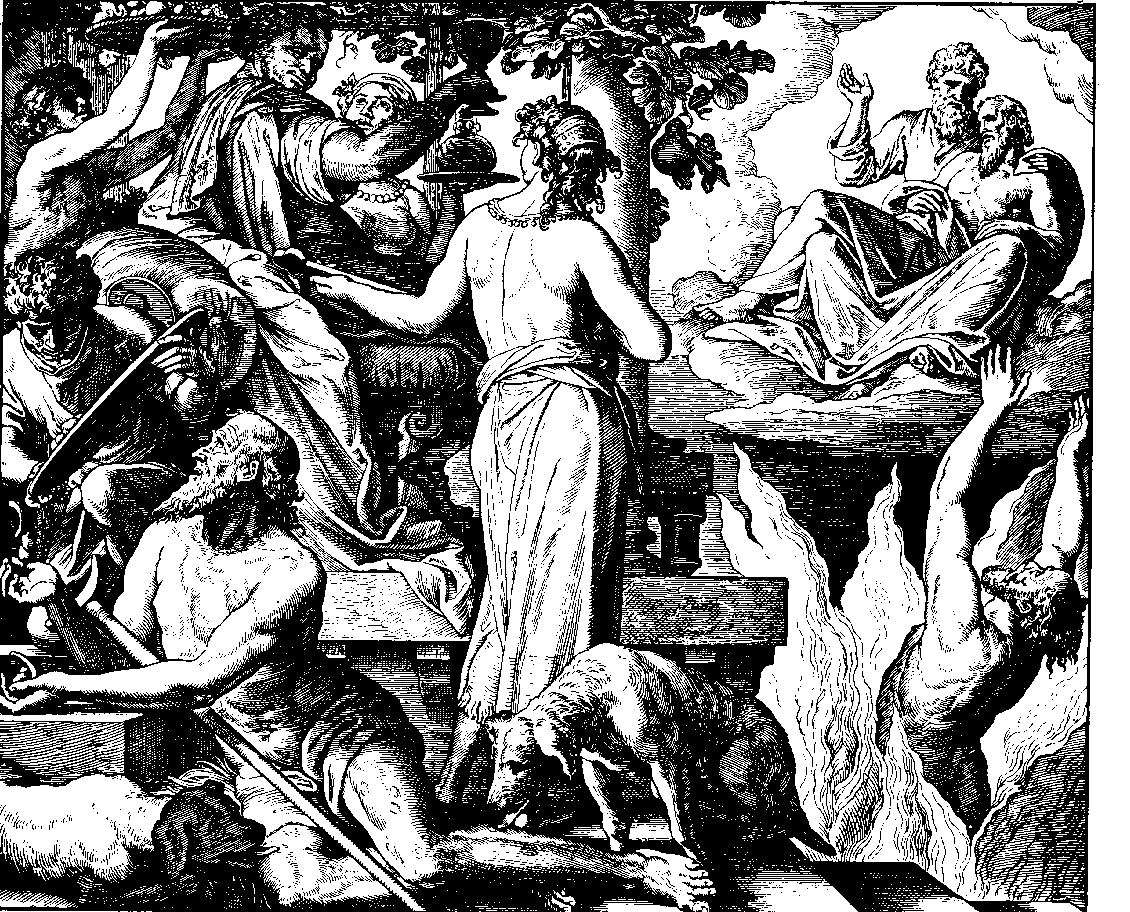 Woodcut for "Die Bibel in Bildern", 1860.